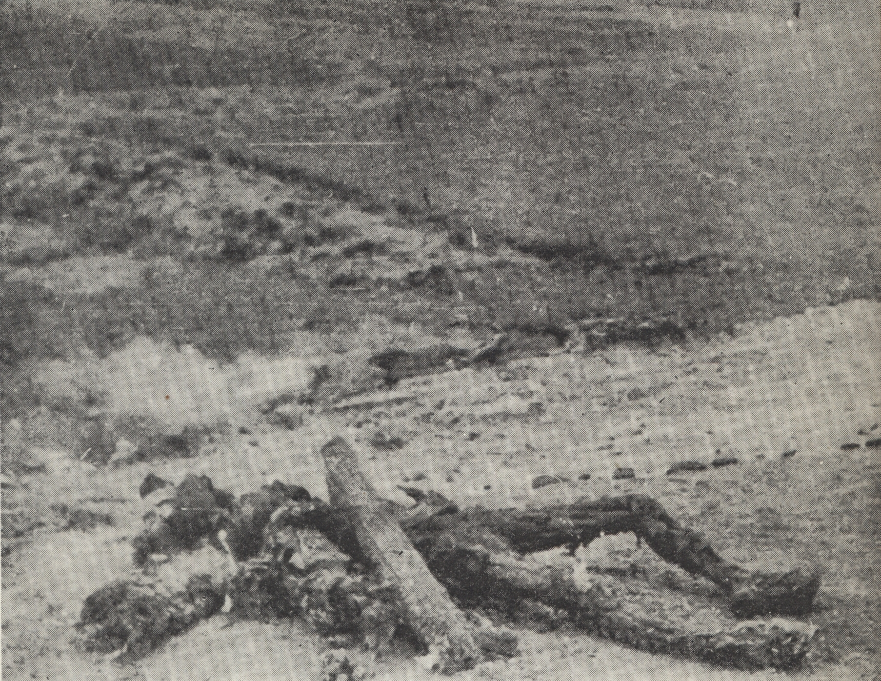 Polish village Skałka Polska in Kielce county, burned by German occupants. On 11th May 1943 German gendarmerie and Sonderdienst destroyed Skałka Polska and murdered more than 90 of its inhabitants. This photo was taken after the massacre.